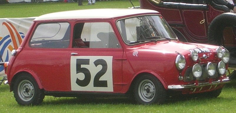 A 1964 Mini Cooper S. This car, which was one of the cars prepared by the BMC competitions department, won outright victory in the 1965 Monte Carlo. It was crewed by Timo Mäkinen and Paul Easter. This vehicle is kept at the Heritage Motor Centre, Gaydon, UK.